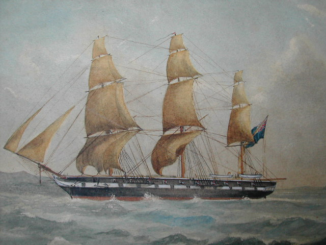 HMS Pelorus